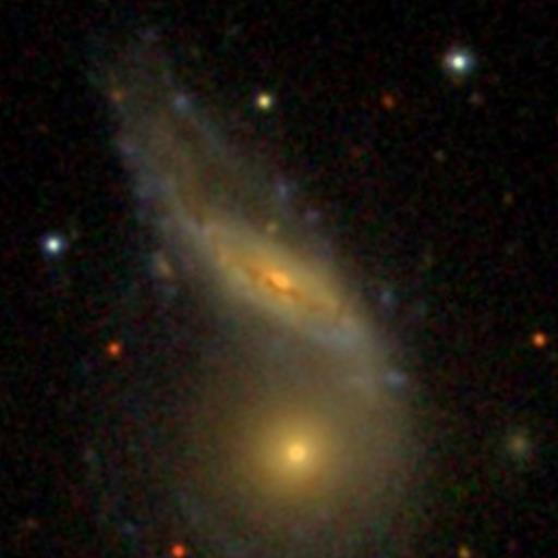 SDSS image centered on NGC 6040. The lenticular galaxy PGC 56942 can be seen at the bottom of the image.